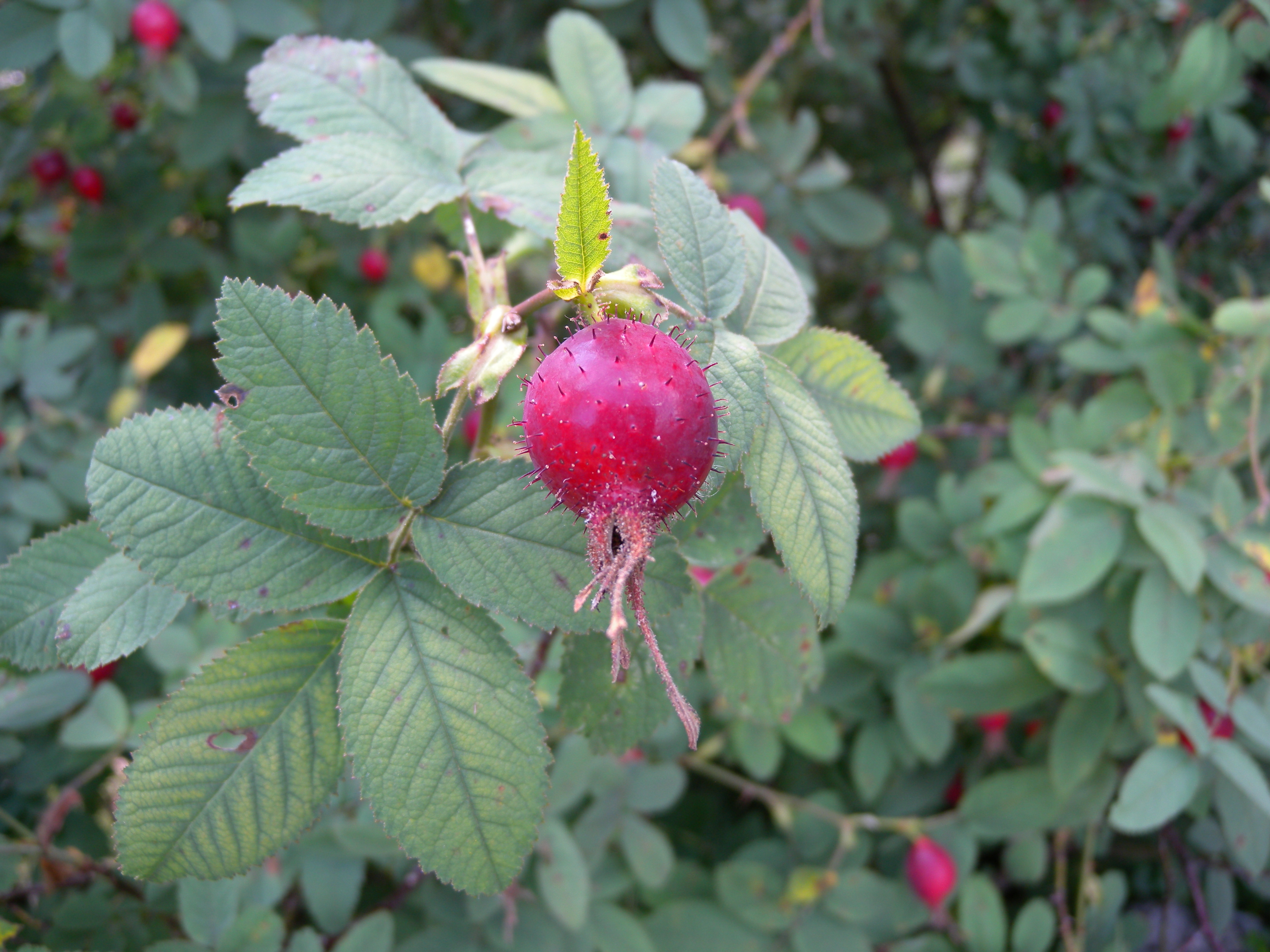 Fruits of Rosa villosa (Rosaceae), Botanical Garden Bern, Switzerland